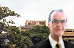 DonAldenAdams-at-WTBethel.png CC: PUBLIC DOMAIN by ILVI